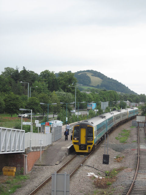 Welshpool station